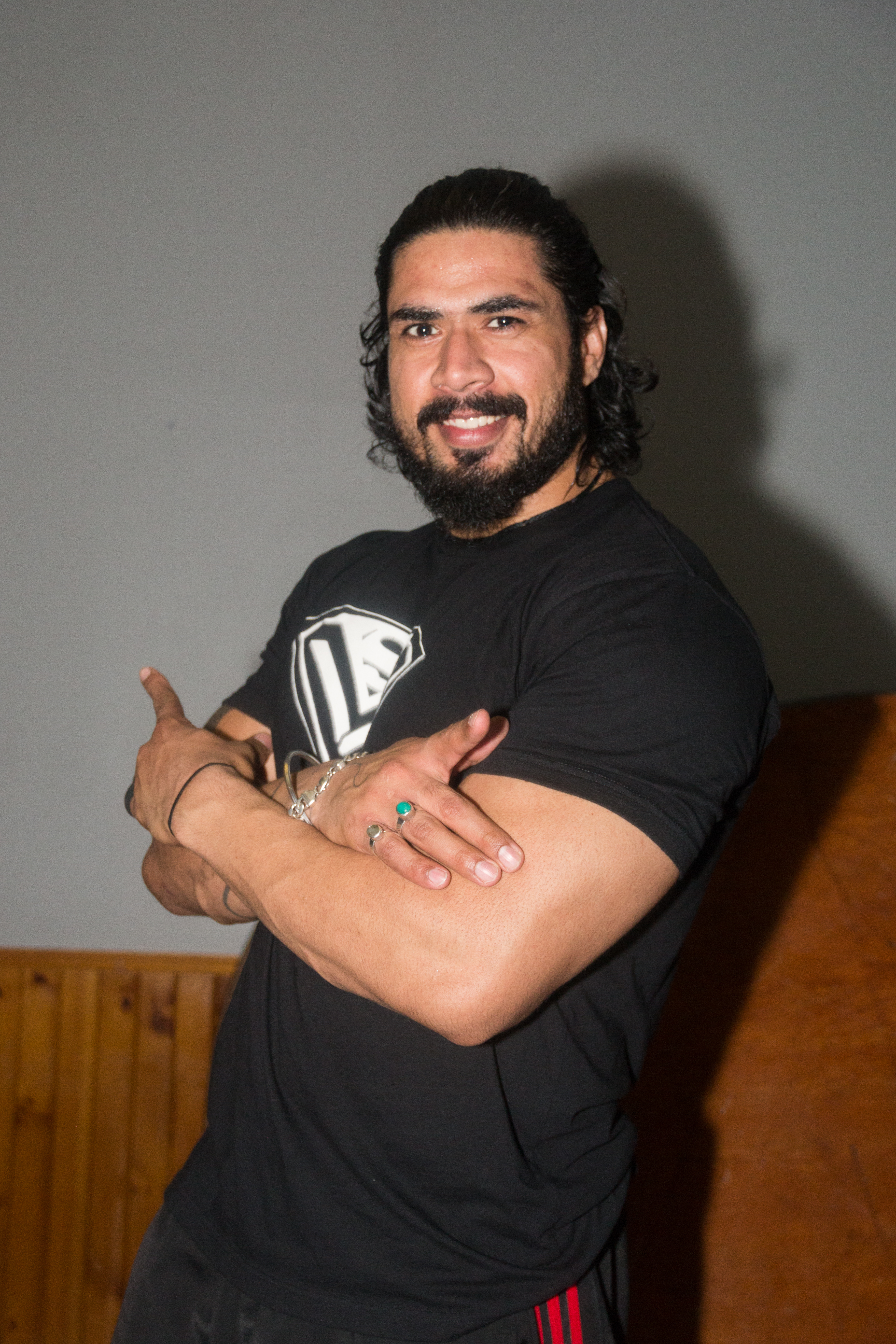 Wrestler Mahabali Shera posing post-event at a PWA wrestling show in Guelph, ON